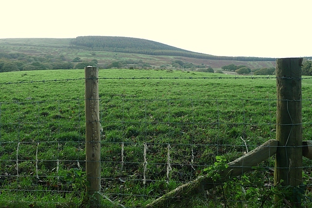 Towards Mynydd Marchywel Checked carefully with GPS, the lane is just in the south-east corner of the square. Looking north-west, this shows most of the square, pasture land up to the corner of the forestry on Mynydd Marchywel.